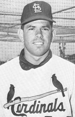 Professional baseball player Nellie Briles